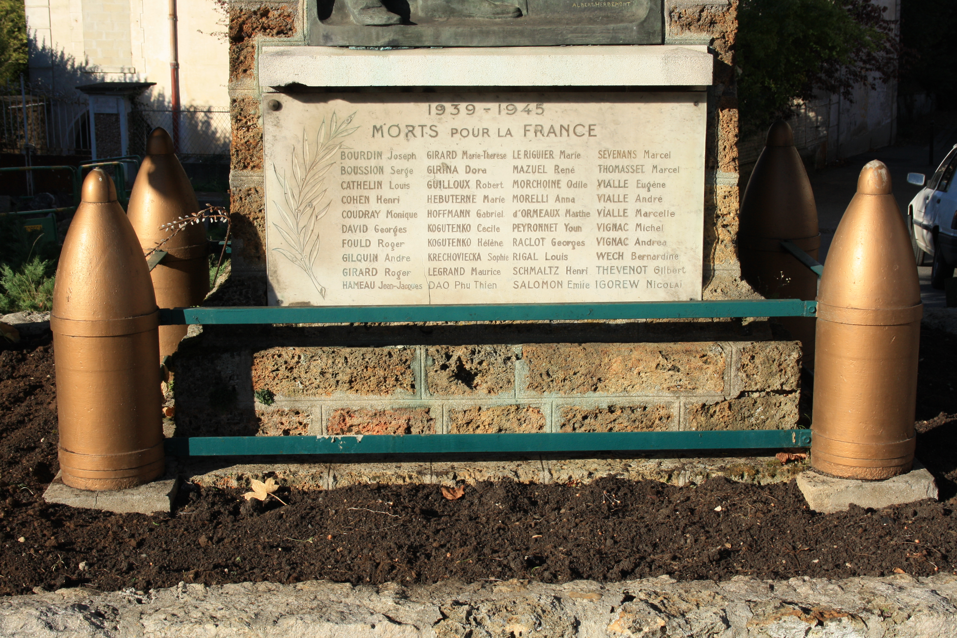 War memorial of Bures-sur-Yvette, France.